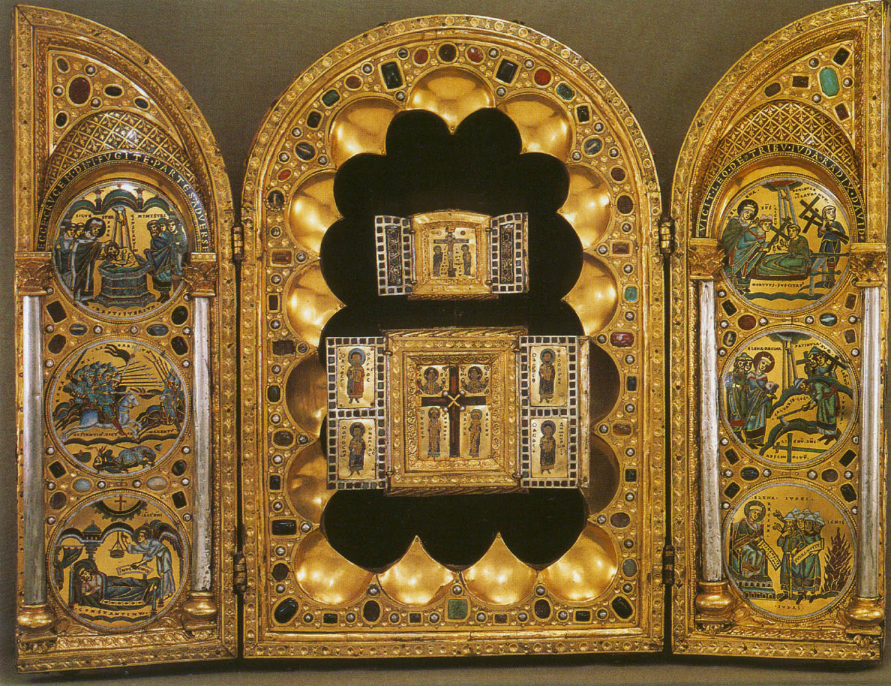 Stavelot Triptychcatalogue entry